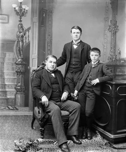 The Right Honourable Sir Charles Tupper (former Canadian Prime Minister) with his son The Honourable Charles Hibbert Tupper, and his Grandson